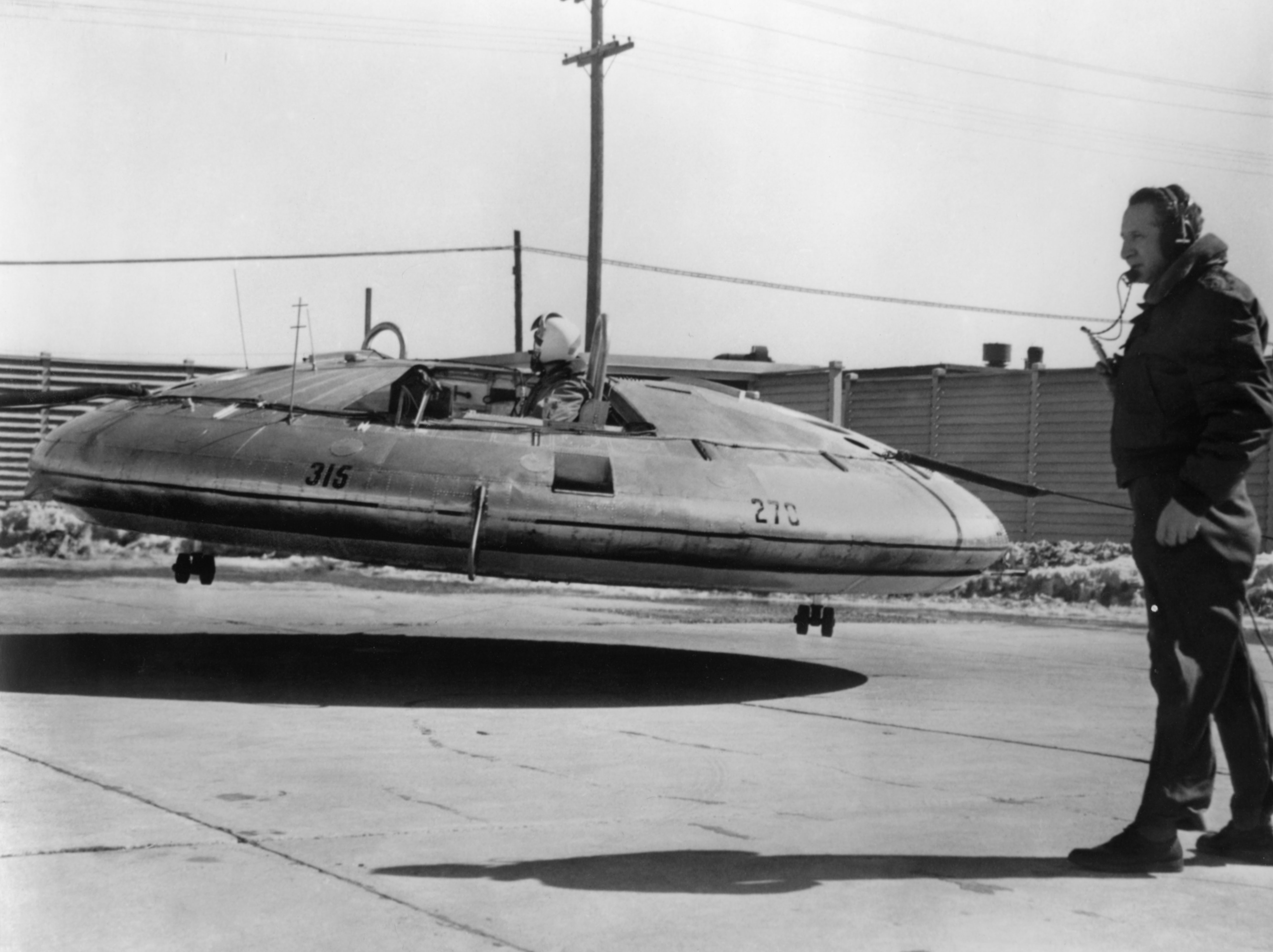 Before free-flight tests, the Avrocar was flown with tethers, seen here in front and behind the aircraft, for safety reasons. (U.S. Air Force photo)